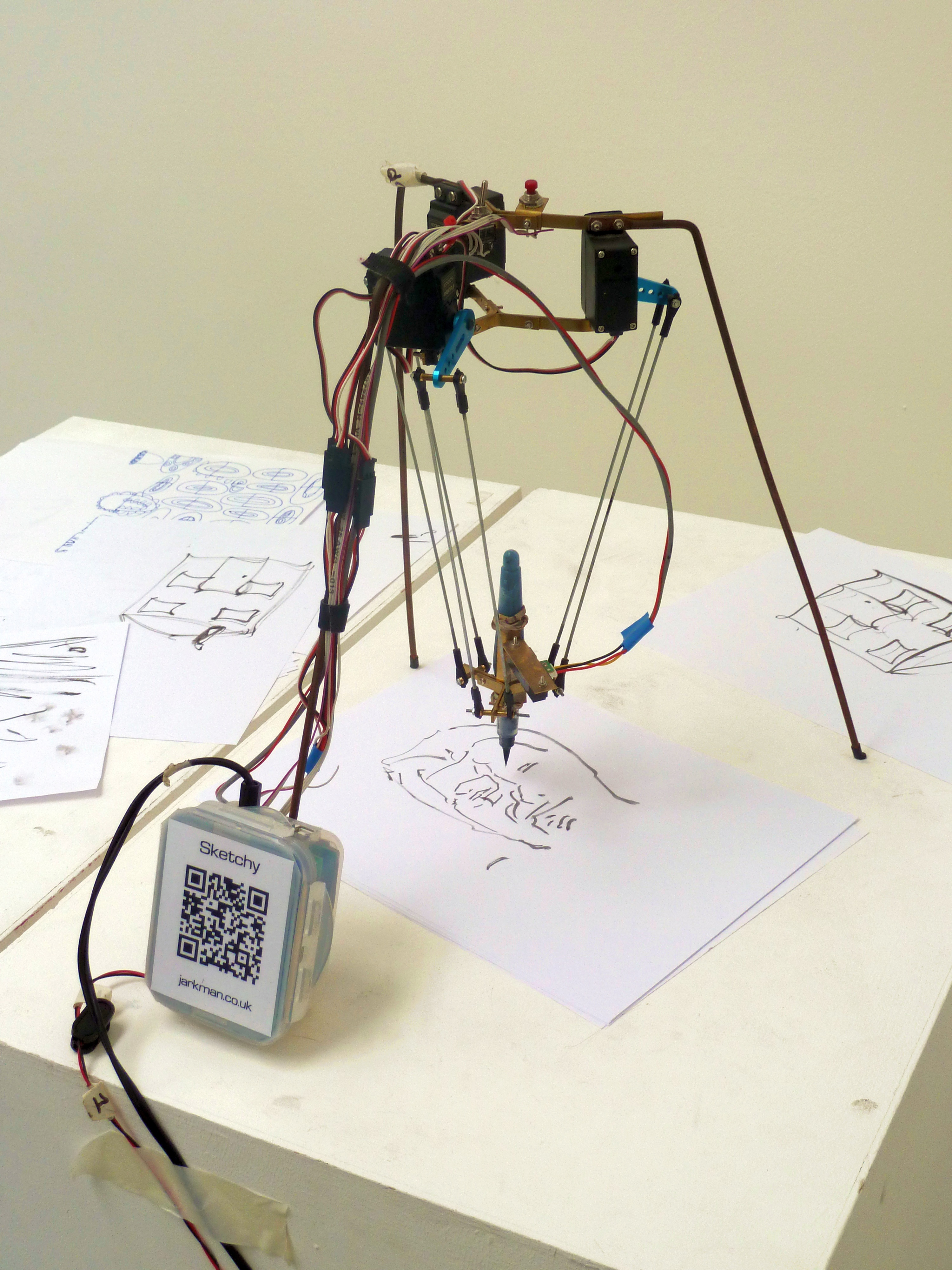 Sketchy, a portrait-drawing delta robot.[1] Photographed at the Bristol Hackspace open day,[2] the Mad Hacker's Tea Party.[3]